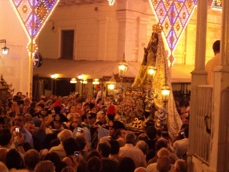 Santa Maria in Processione il 16 Agosto 2012